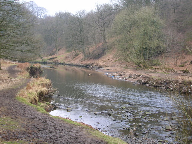 River Darwen